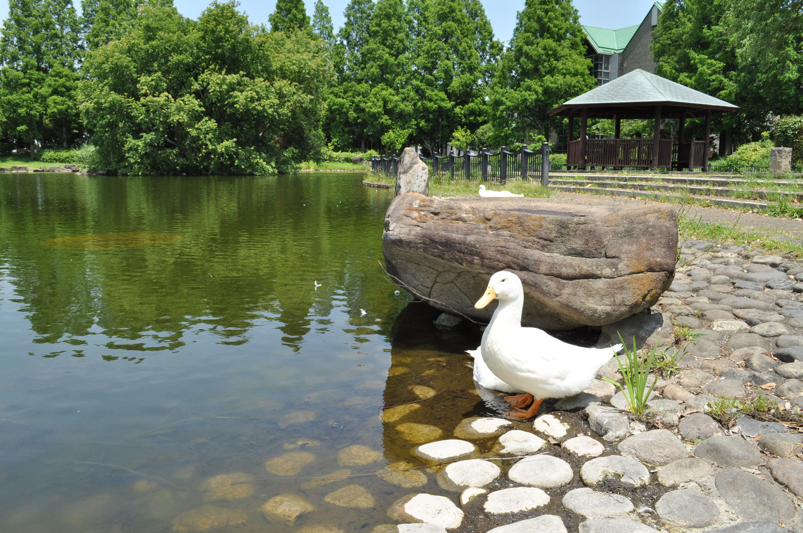 Typical Japanese park with some ducks